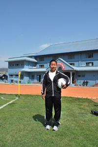 Jamuna Gurung ' captain of nepalese woman football team